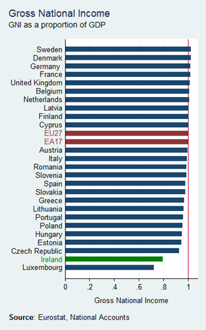 2011 Ratio of GNI to GDP (EuroStat National Accounts)